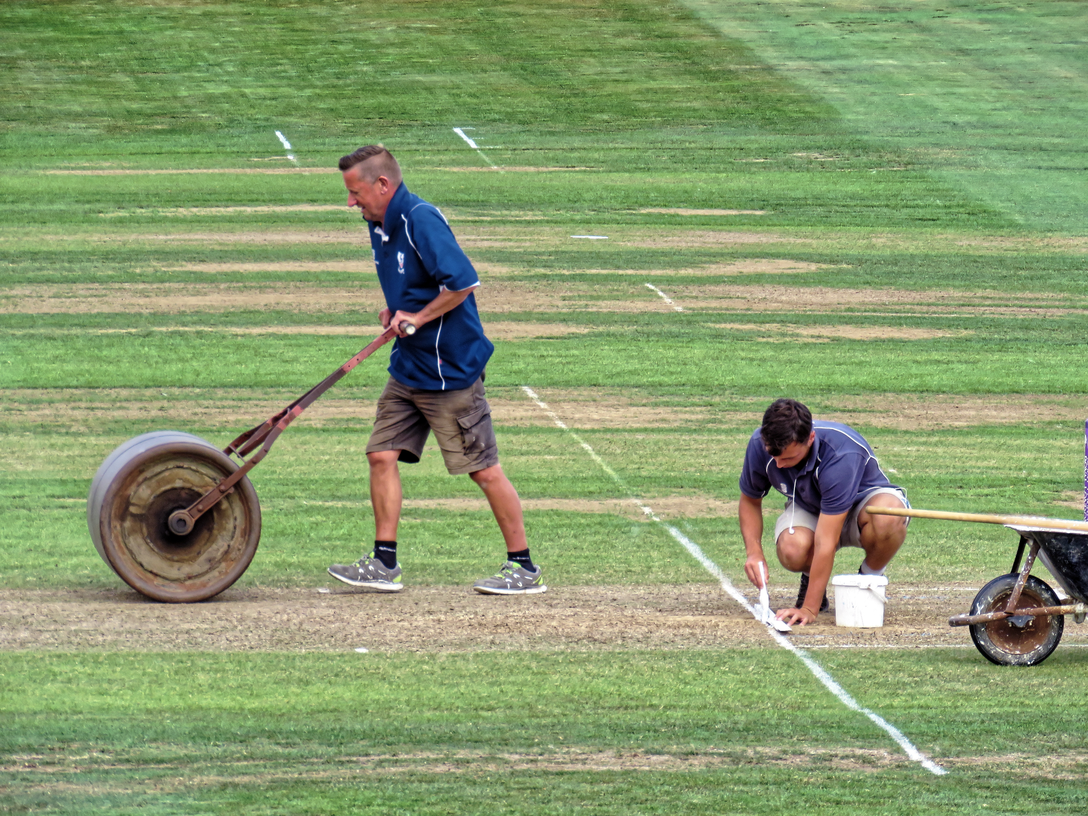 Groundsmen preparing the wicket after the first innings during a County Championship National Over 60s 1st XI Cup game on 6 August 2019, between Essex[1] and Wales[2]. The game was part of the South area elimination stage for the 2019 National 60+ / 70+ County Cricket Championship, and played at Bishop's Stortford Cricket Club on Cricketfield Lane in Bishop's Stortford, Hertfordshire, England.Mobile device view: Wikimedia ((Sep 2019) makes it difficult to immediately view photo groups related to this image. To see its most relevant allied photos, click on Bishop's Stortford Cricket Club, and this uploader's Cricket and People photos. You can add a beta click-through 'categories' button to the very bottom of photo-pages you view by going to settings... three-bar icon top left.Desktop view: Wikimedia (Sep 2019) makes it difficult to immediately view the helpful category links where you can find images related to this one in a variety of ways; for these go to the very bottom of the page.This image is one of a series of date and/or subject allied consecutive photographs kept in progression or location by file name number and/or time marking.Camera: Canon PowerShot SX60 HSSoftware: File lens-corrected, optimized, perhaps cropped, with DxO PhotoLab 2 Elite, and likely further optimized with Adobe Photoshop CS2.